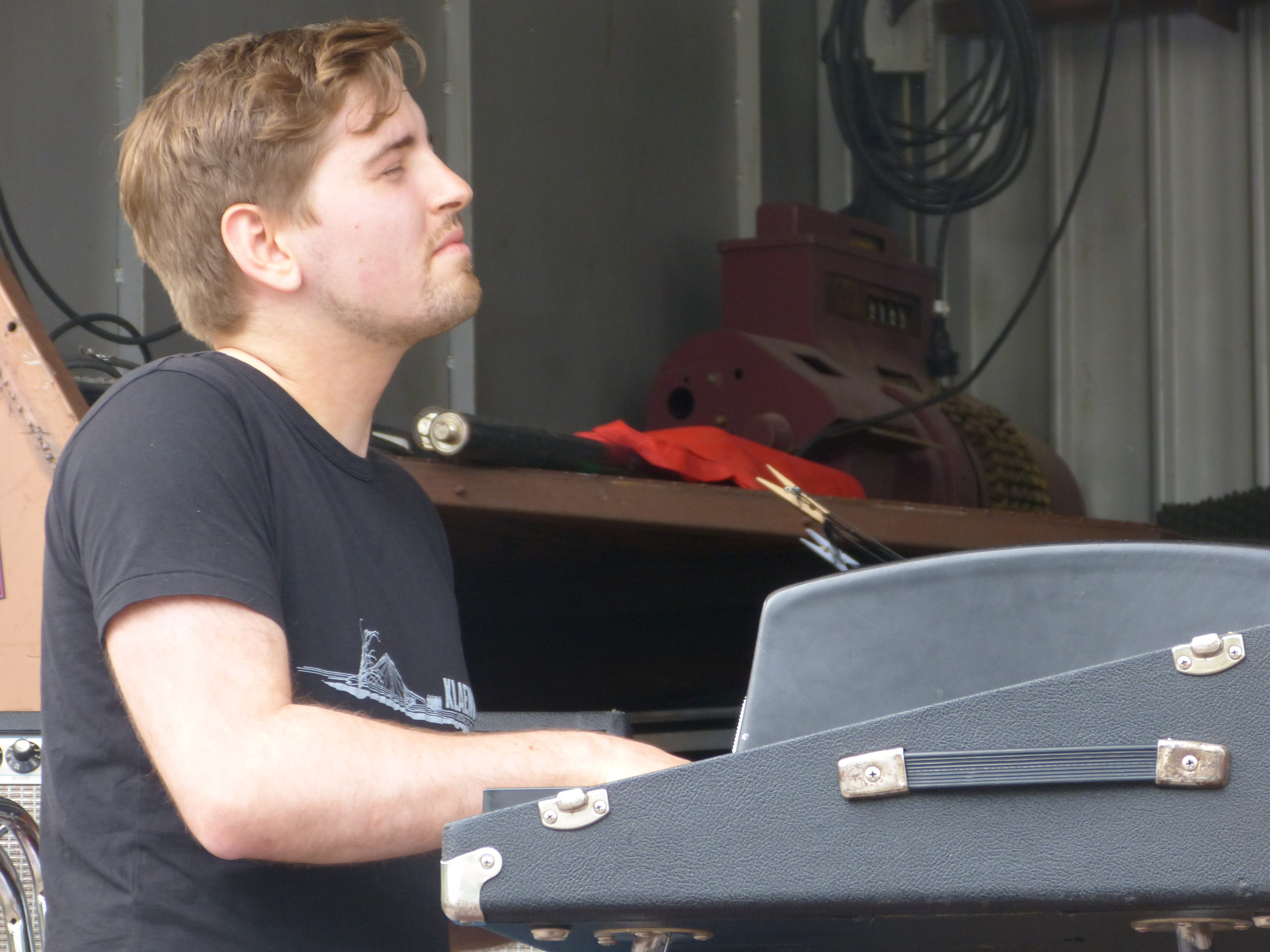 Pablo Held in concert of “La Stecken Experiance” at KLAENG Sommerfestival at Odonien, Germany, June 22th, 2013